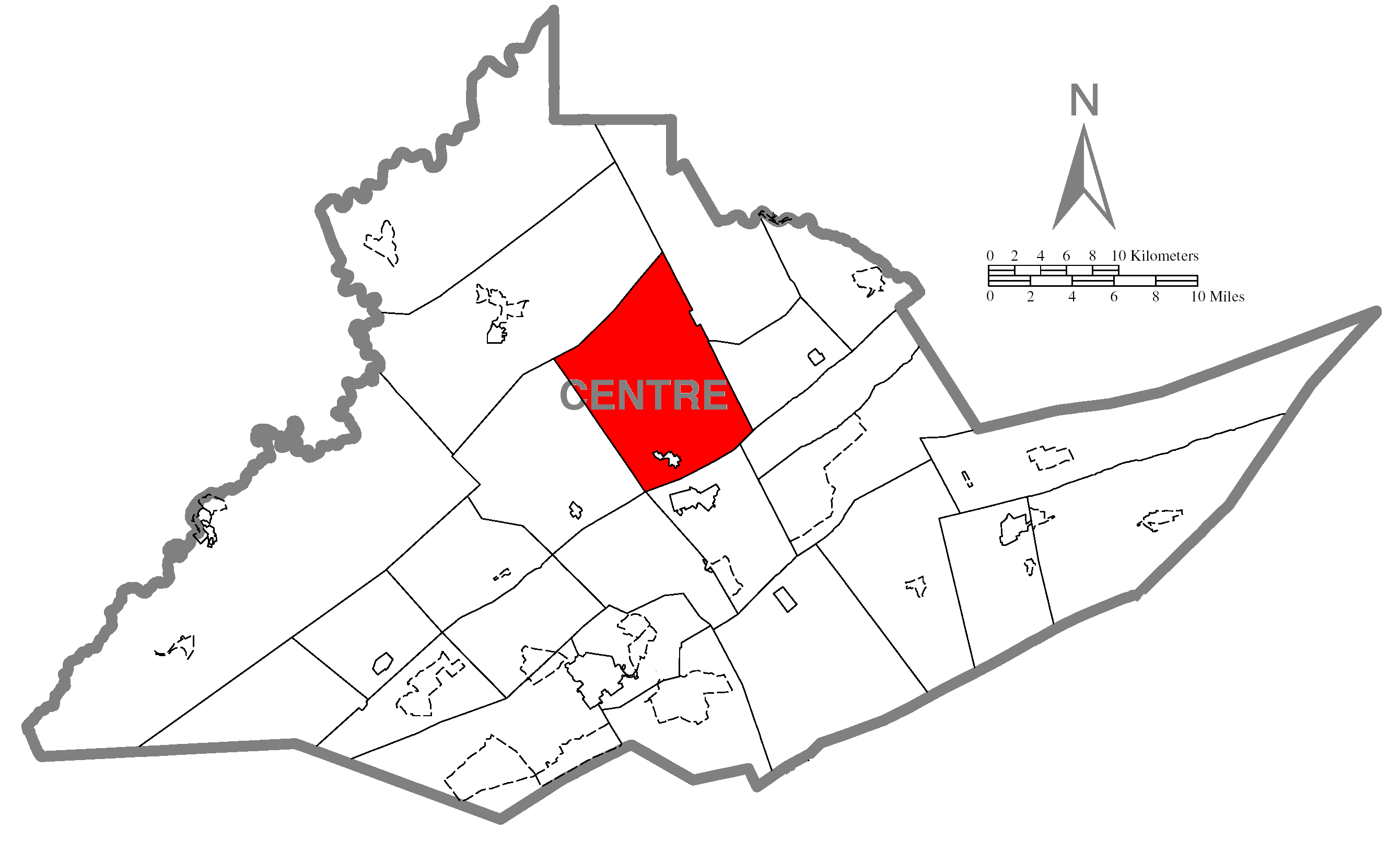 A map of Centre County showing Boggs Township, Pennsylvania (alternate) highlighted on the map.